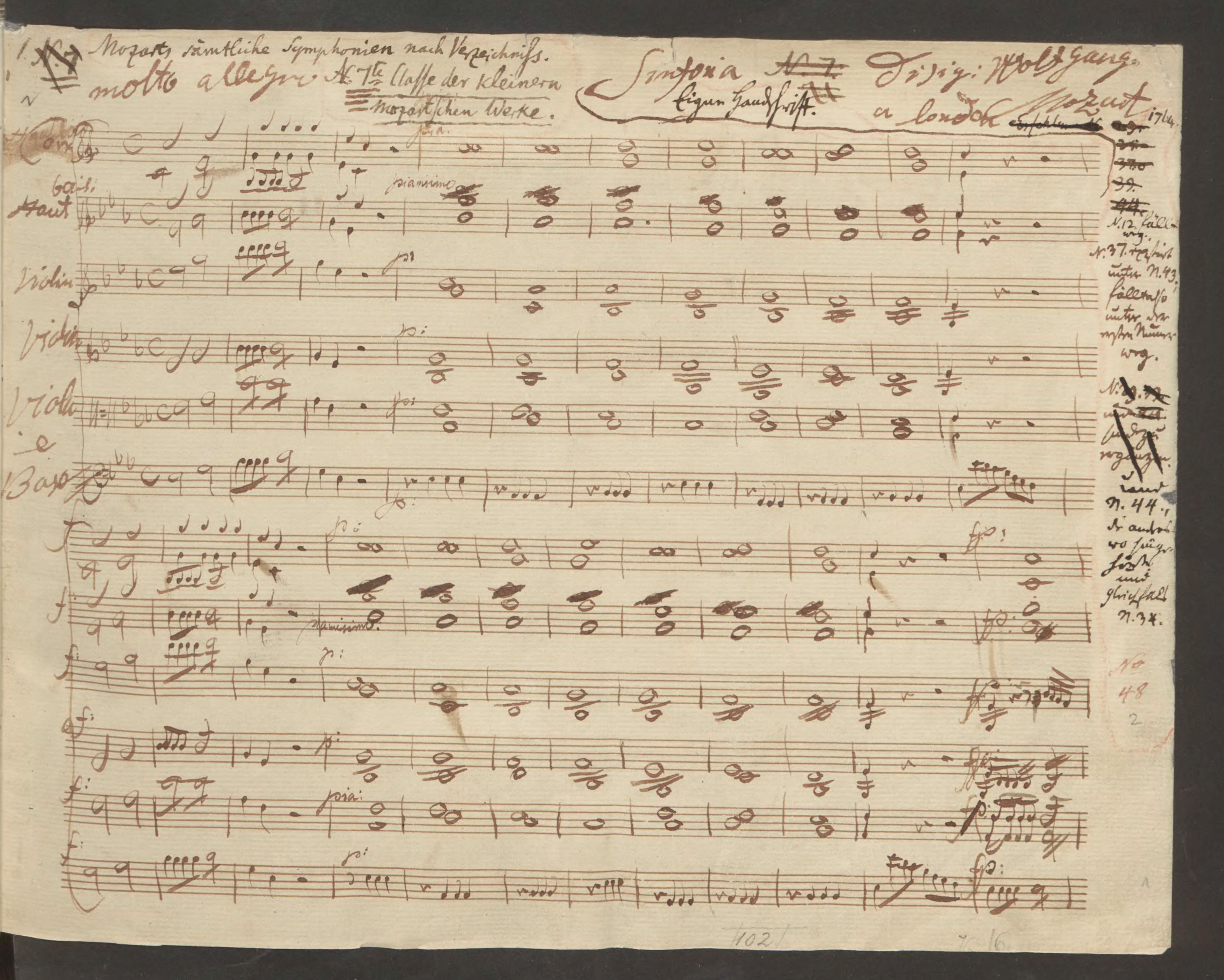 The opening of the autograph manuscript of Mozart's Symphony No.1 in Eb Major, K.16, written in London in 1764 when the composer was eight years old. Preserved today at the Biblioteka Jagiellońska, Kraków.